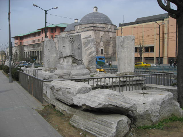 The ruins of the Triumphal Arch of Theodosius. The marble pieces that are located here belong to the Triumphal Arch and the forum built by and named after Emperor Theodosius the Great (4th century CE). The Triumphal Arch was situated on the southwest corner of the Theodosius Forum (today Beyazit Square). This area used to be called "Forum Tauri" (The Bull Square) but in the 4th century CE the name was changed into the "Forum of Theodosius". During this period, the forum was surrounded by marble public and civil buildings decorated with porticoes. The marble archeological pieces that can be seen today were found between the years 1948 and 1961 during the rearrangements of Beyazit Square and Ordu street. After the discovery of these pieces, an experimental reconstruction was made in spite of the absence of some pieces and finally the probably form of the monument was established. According to this reconstruction, the triumphal arch had a vaulted roof with three passageways. The central one was higher and the ones on either sides lower. It was conceived to be similar to the ones in Rome. In the middle was the statue of Theodosius, while on both sides statues of his sons were put up, Arcadius and Honorarius. Today the main street that starts from the Hagia Sophia Square is basically in the same direction to the west with the ancient Mese road, which formed the main artery of the old city. The Mese, passing through the Theodosius triumphal arch continued on to Thrace and reached out the Balkan peninsula. The triumphal arch and the surrounding ancient buildings to which some ruins possibly belong were destoryed as a result of invasions and natural disasters like earthquakes from the 5th century on. Thus their destruction was completed long before the conquest of Constantinople by the Ottoman Turks.